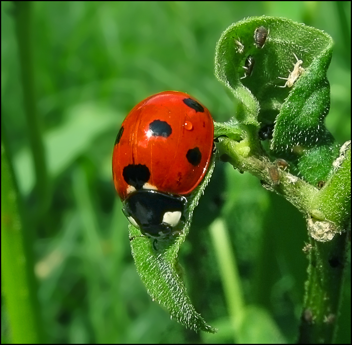 A ladybug, (Coccinella sp., probably C. septempunctata) with aphids on a weed.